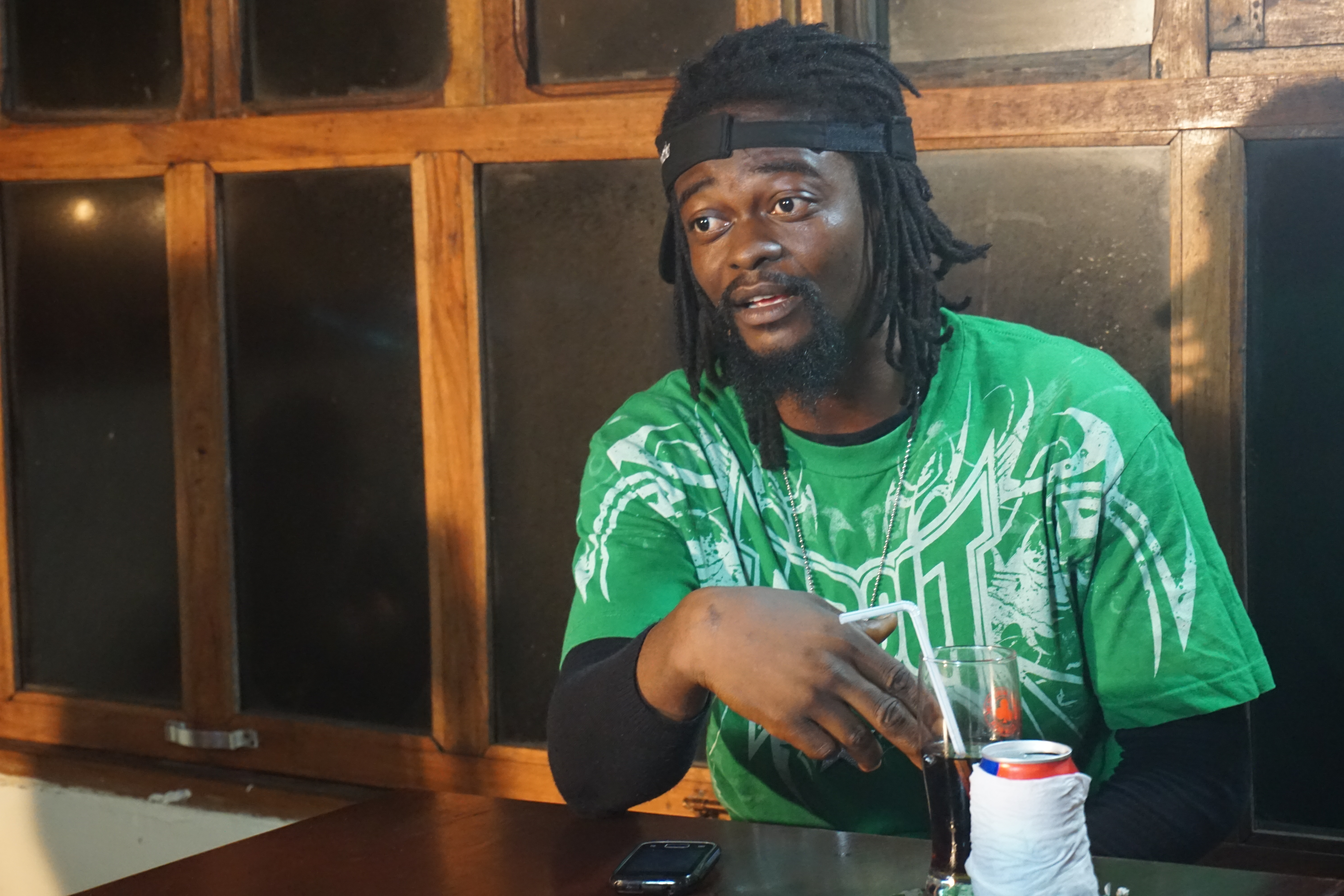 This is an image from Liberia